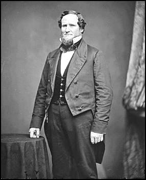 William Barksdale